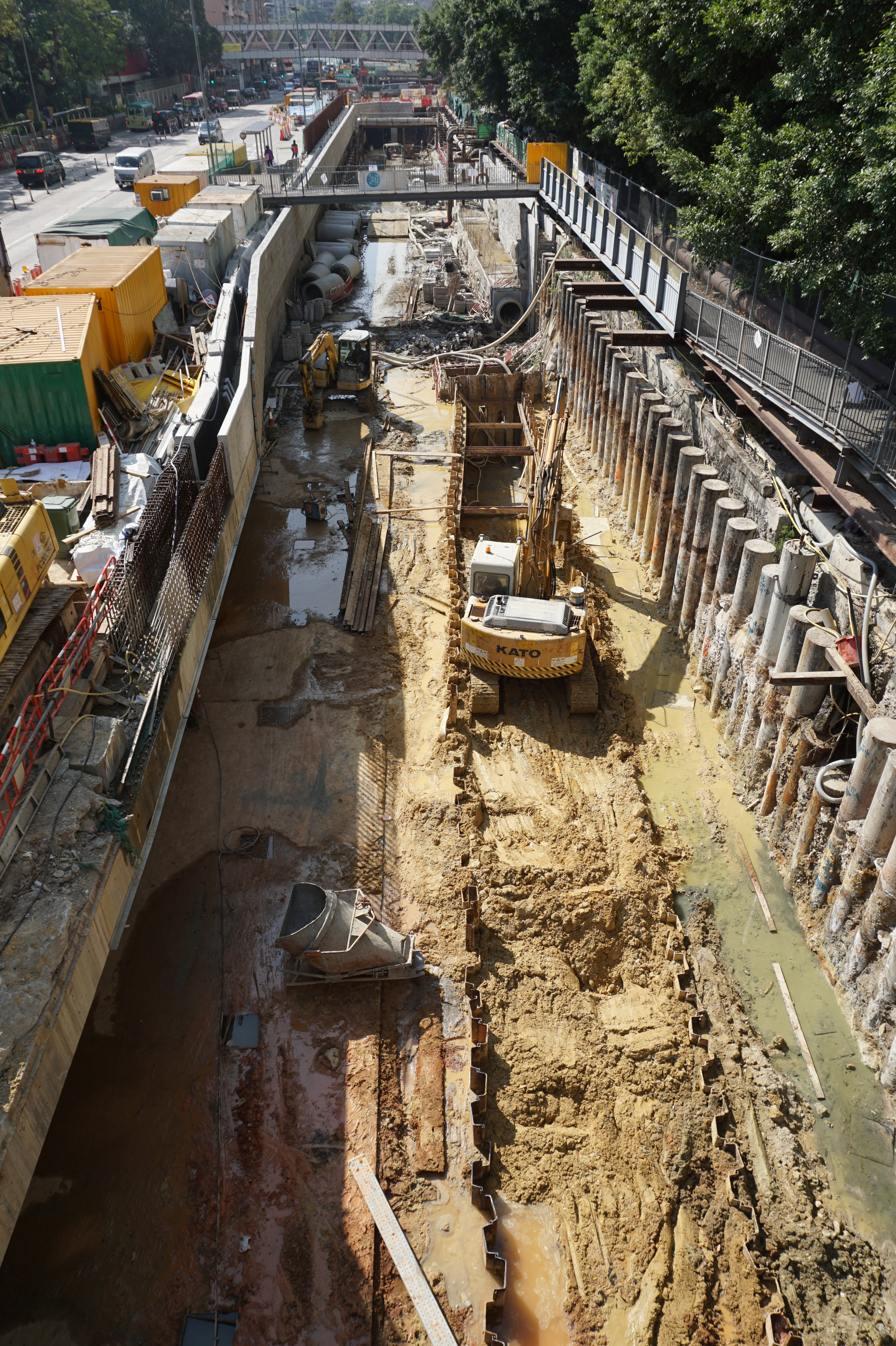 Kai Tak Nullah in San Po Kong, Hong Kong.